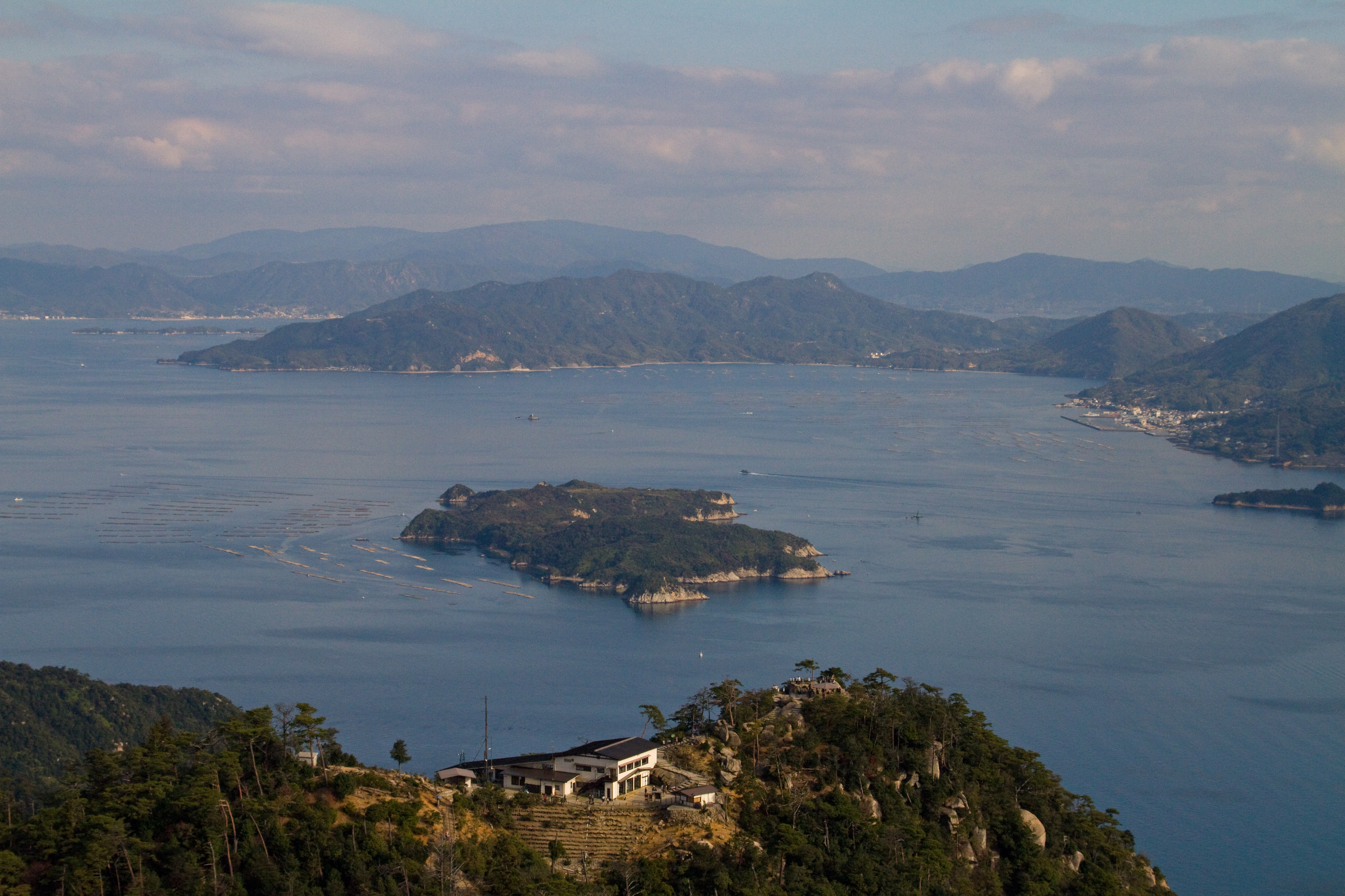 Miyajima 2